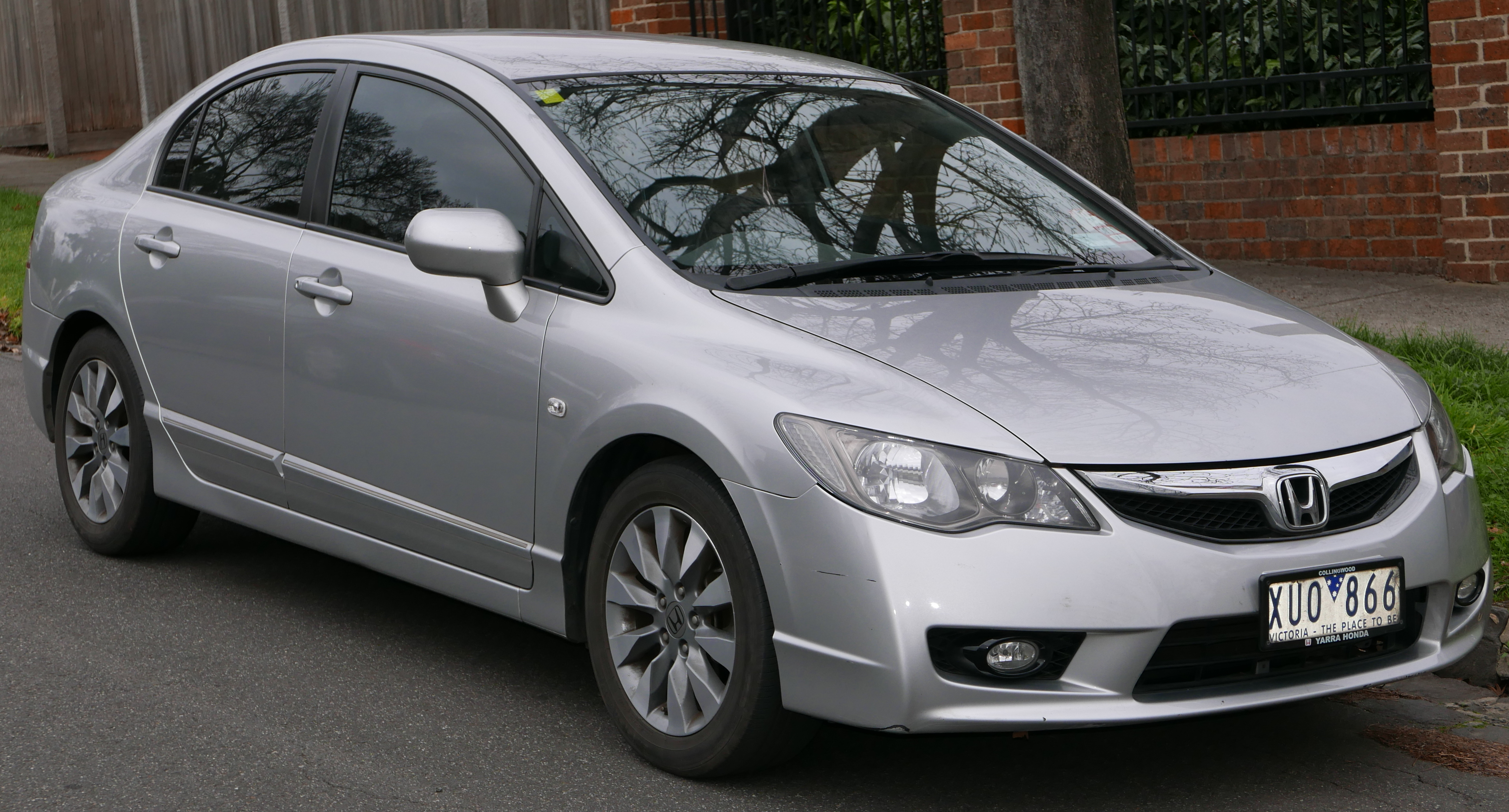 2010 Honda Civic (MY10) VTi-L sedan. Photographed in Kew, Victoria, Australia. Vehicle registration enquiry resultsJurisdictionVictoriaRegistrationXUO866Chassis codeMRHFD1670AP030312Engine codeR18A18901930Compliance date2010-04Year of manufacture2010